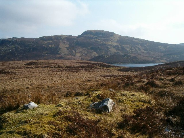 Moorland (Looking Towards Sidh Mor) Sidh Mor at 408m dominates this moor between Loch Awe and Loch Fyne.